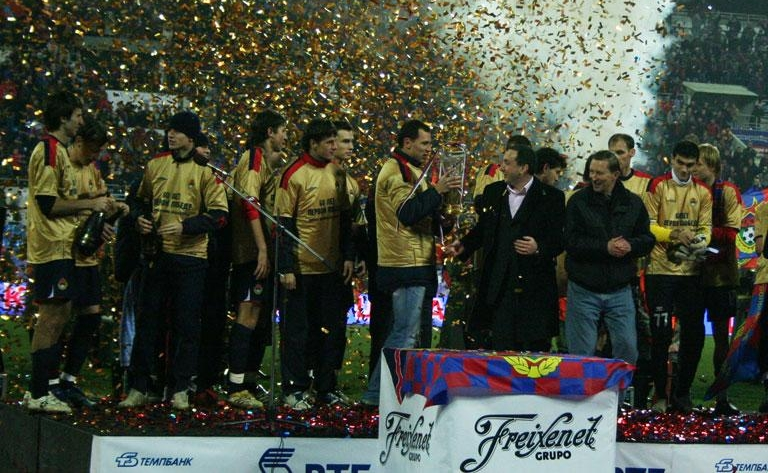 PFC CSKA Moscow celebrating 2006 Russian Championship